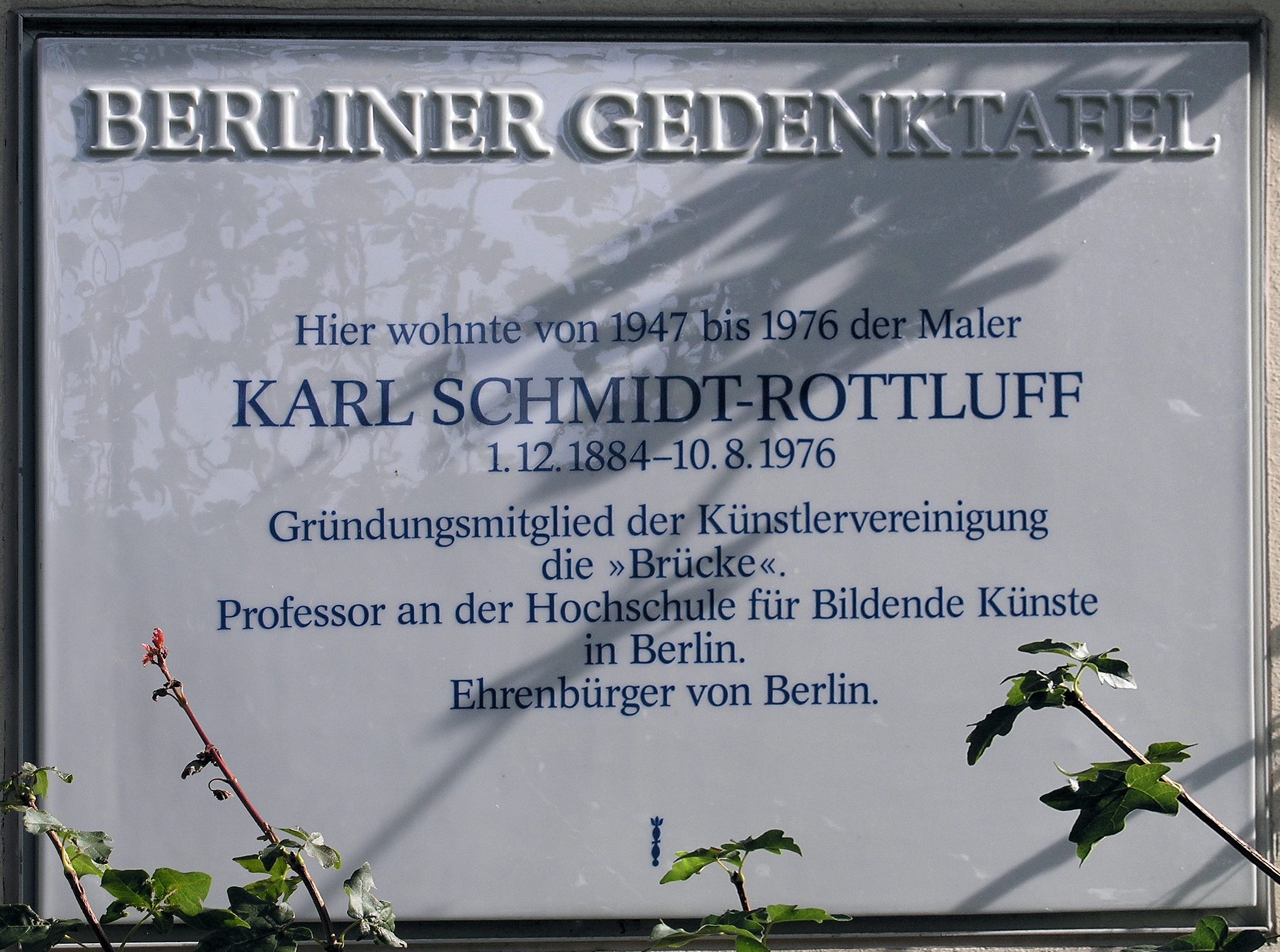 Memorial plaque, Karl Schmidt-Rottluff, Schützallee 136, Berlin-Dahlem, Germany